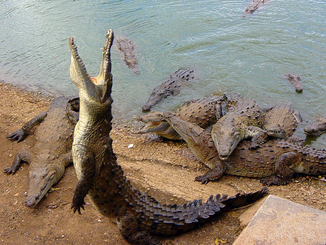 A large group of american crocodiles in Cuba.